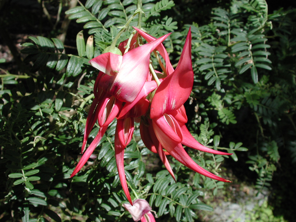 Kaka Beak flowers and foliage, in spring in New Zealand.